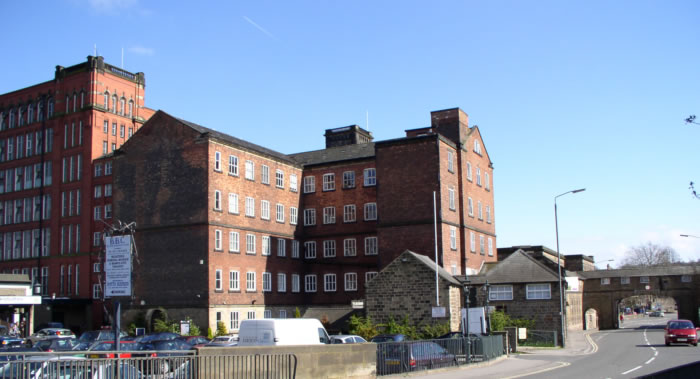 Belper: Jedediah Strutt's North Mill with the East Mill behind